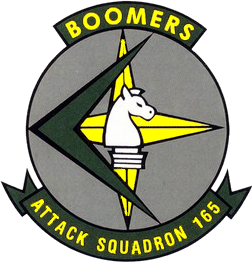 Insignia of the U.S. Navy Attack Squadron 165 (VA-165) "Boomers".